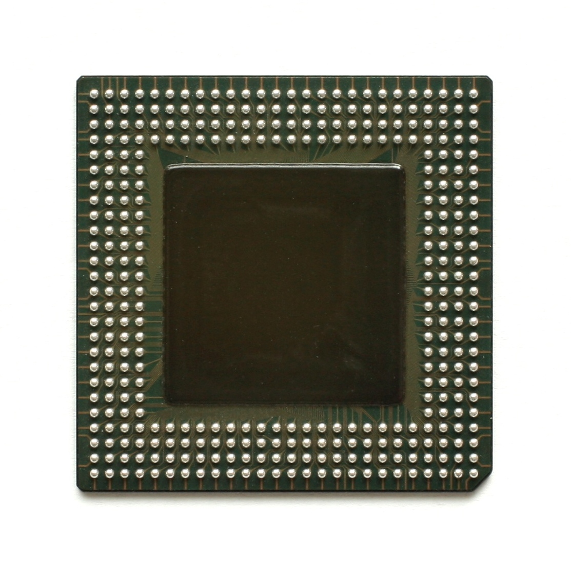 CPU Intel Embedded Pentium MMX, 166 MHz, BGA